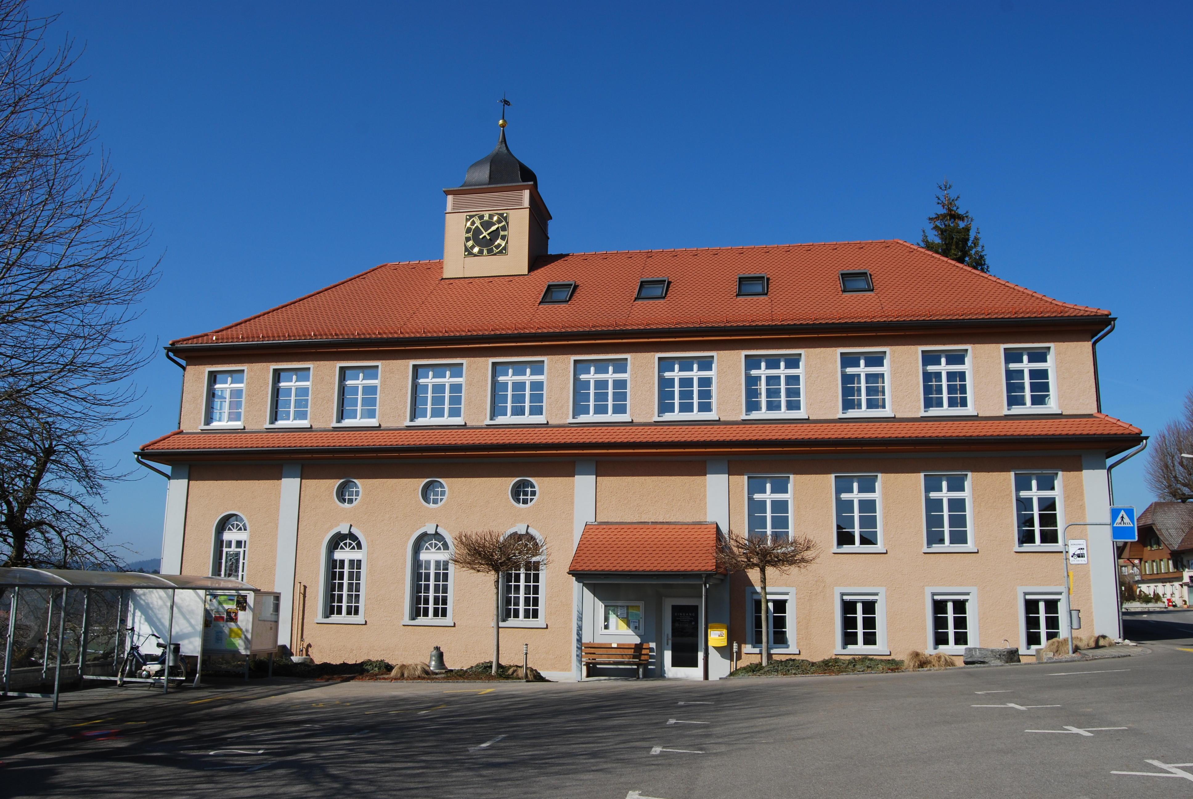 Protestant church, municipality and Post Office of Gondiswil, canton of Bern, Switzerland